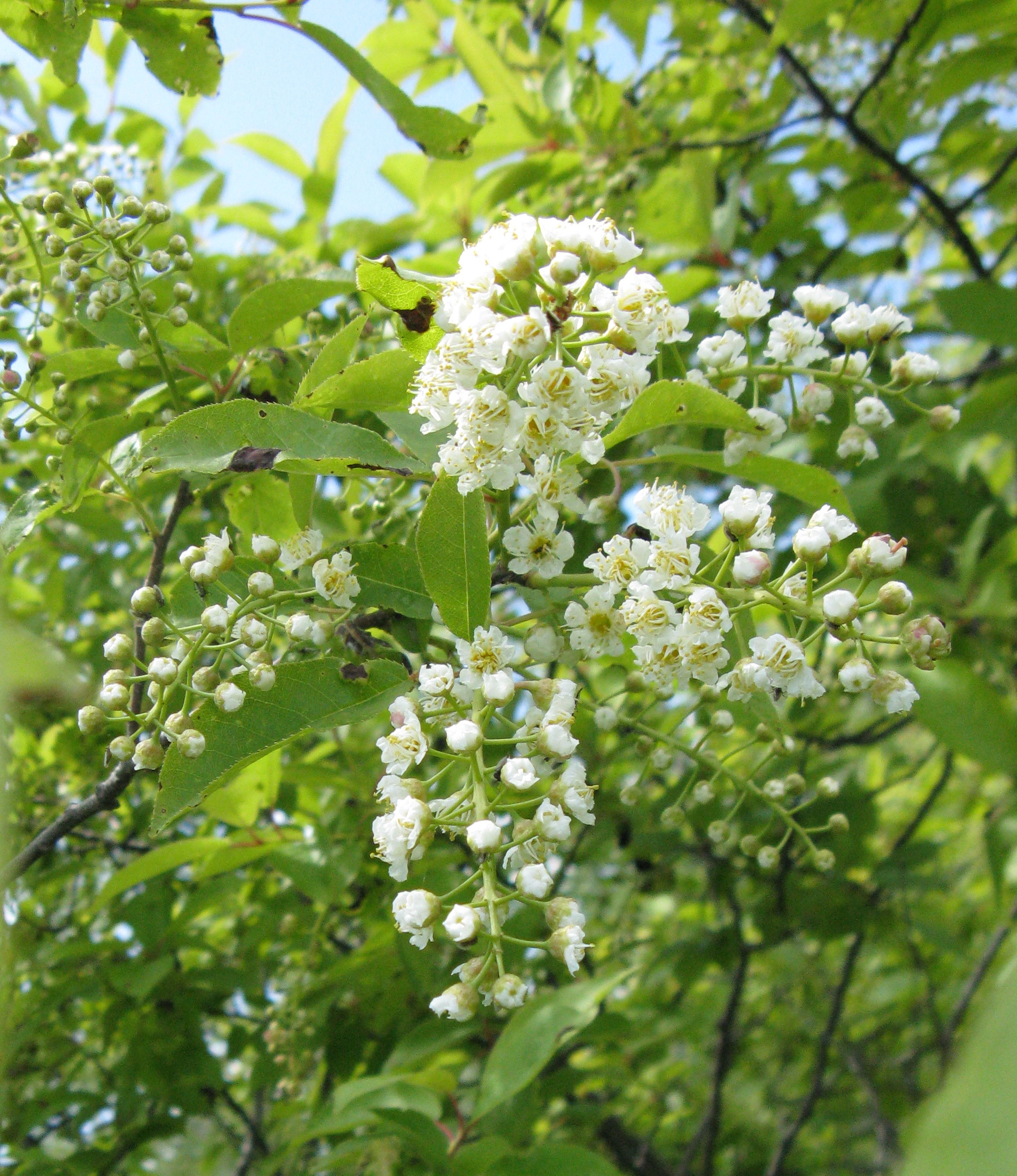 Wild tree, Toronto, Canada